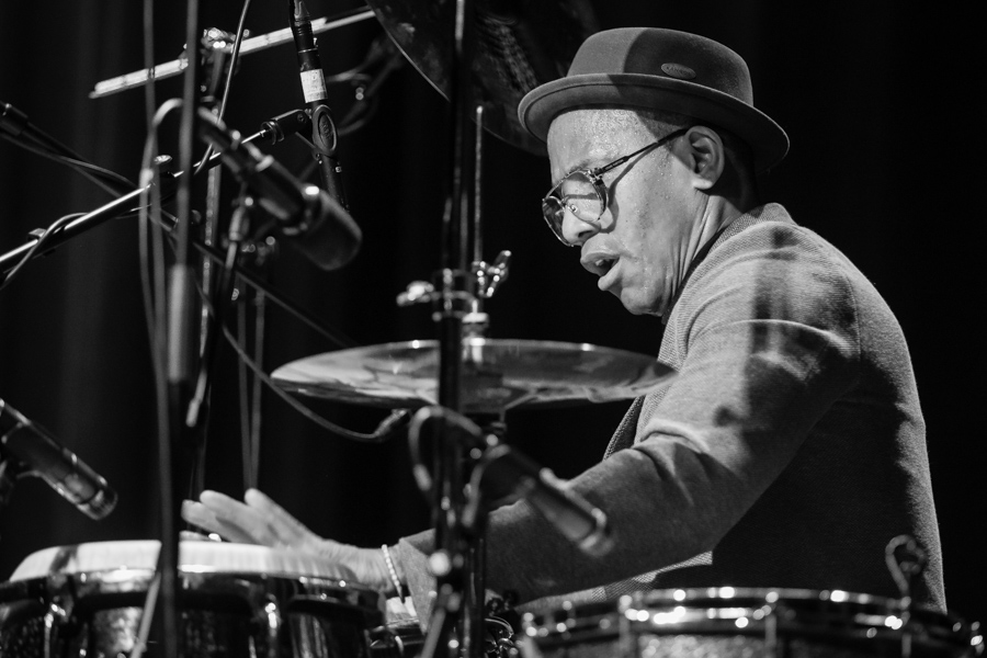 Pedrito Martinez in a concert with Richard Bona at Cosmopolite. The concert took place on 04. March 2020 in Oslo. Lineup:Richard Bona (bass guitar and vocal)Alfredo Rodríguez (grand piano)Pedrito Martinez (percussion)